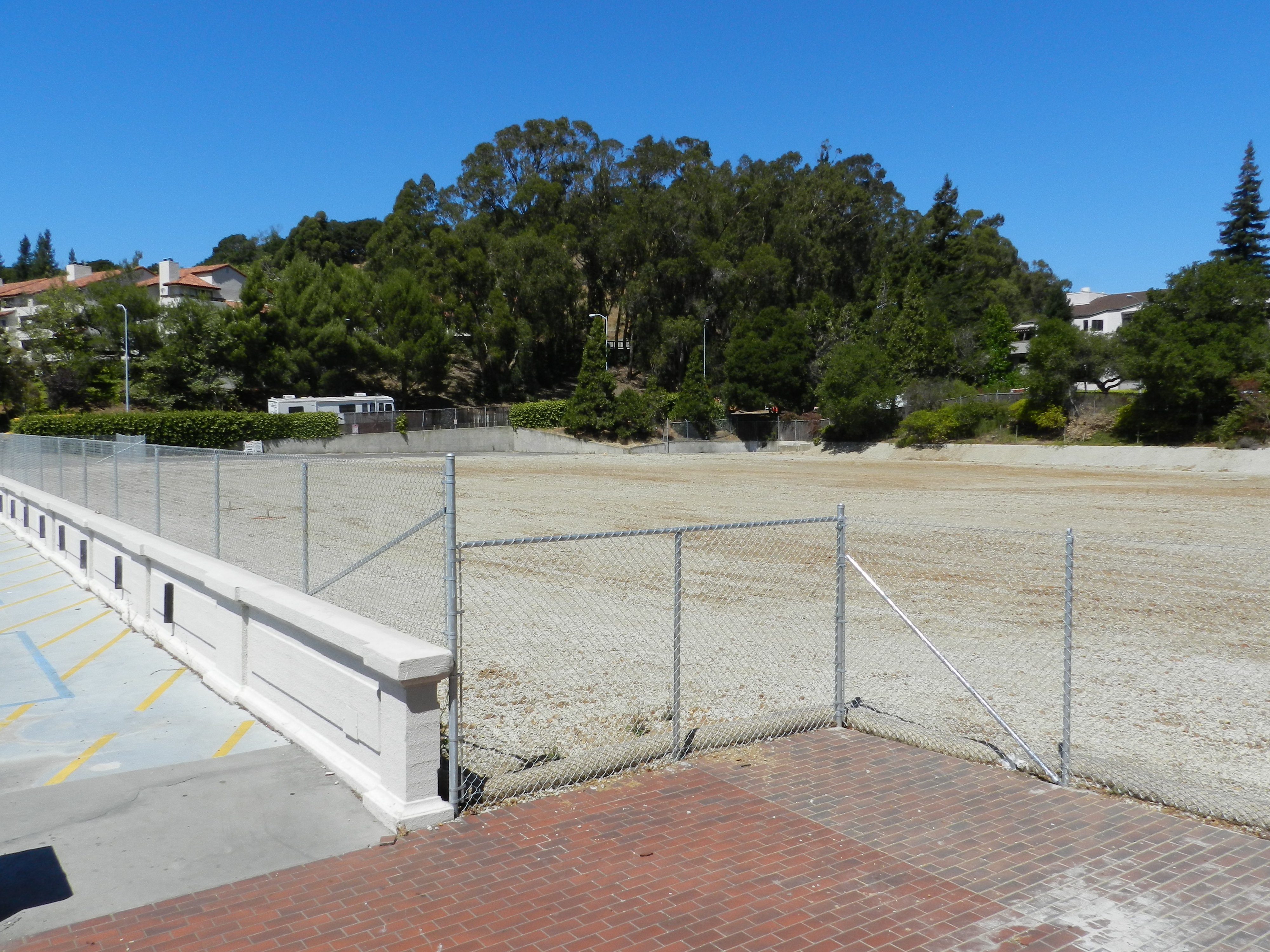 former site of Centennial Hall, Hayward